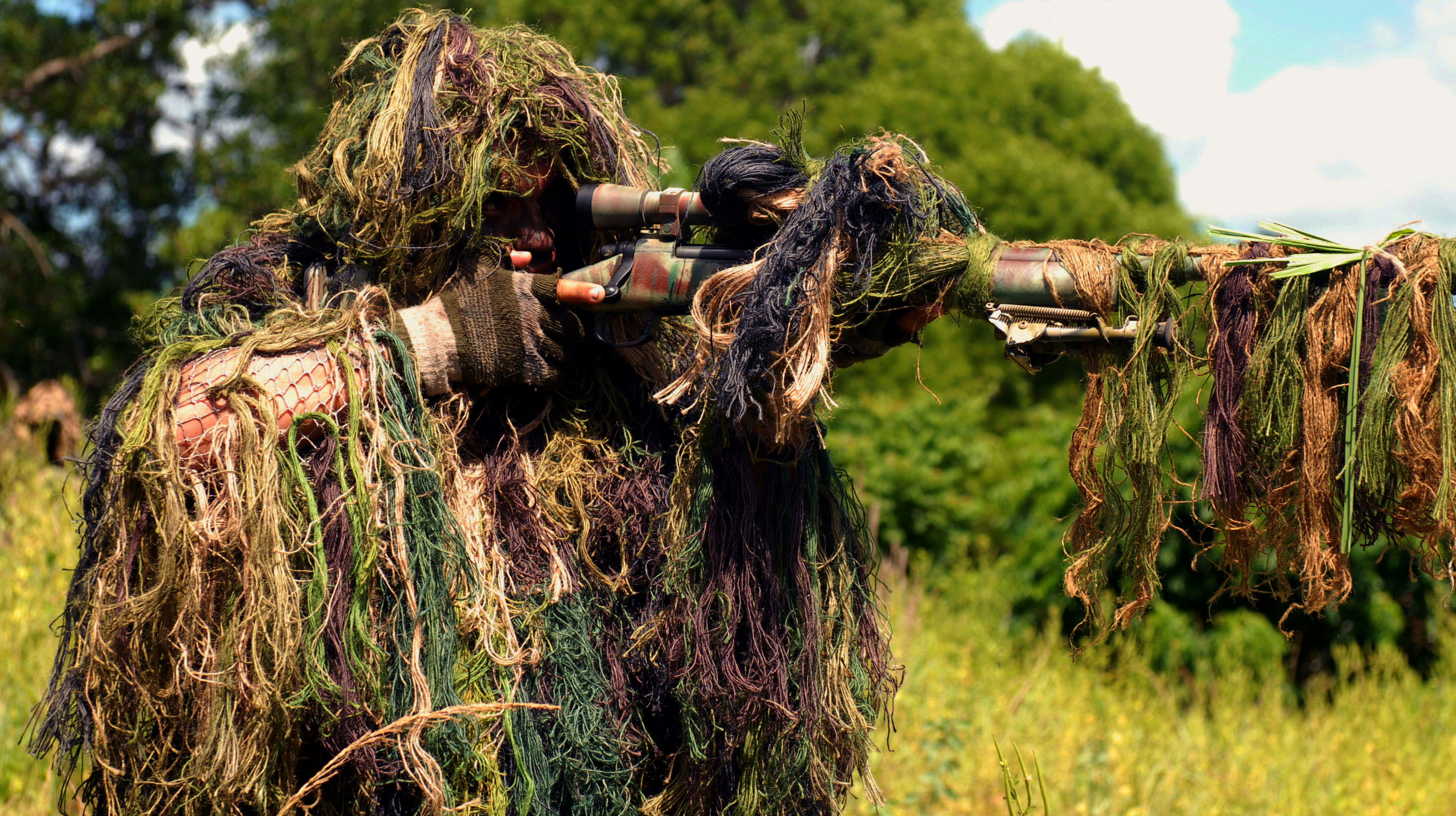 A Belizean sniper aims downrange to aquire a target while taking part in the Sniper Stalking event at Fuerzas Comando on June 17. Teams devised of snipers and observers set off to find a target while remaining concealed from visual sight.